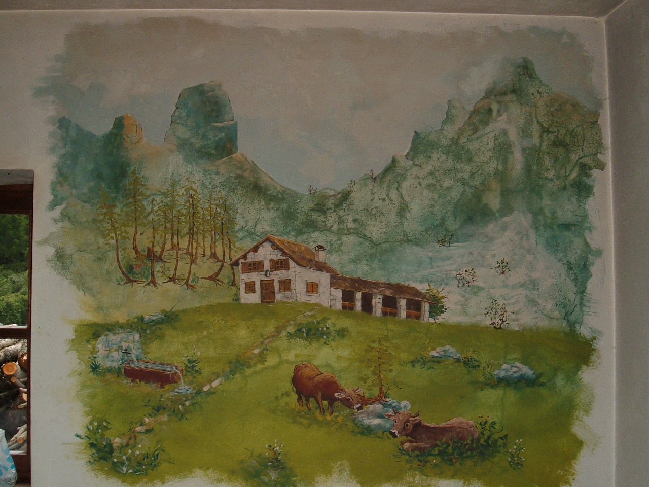 Malga Meda